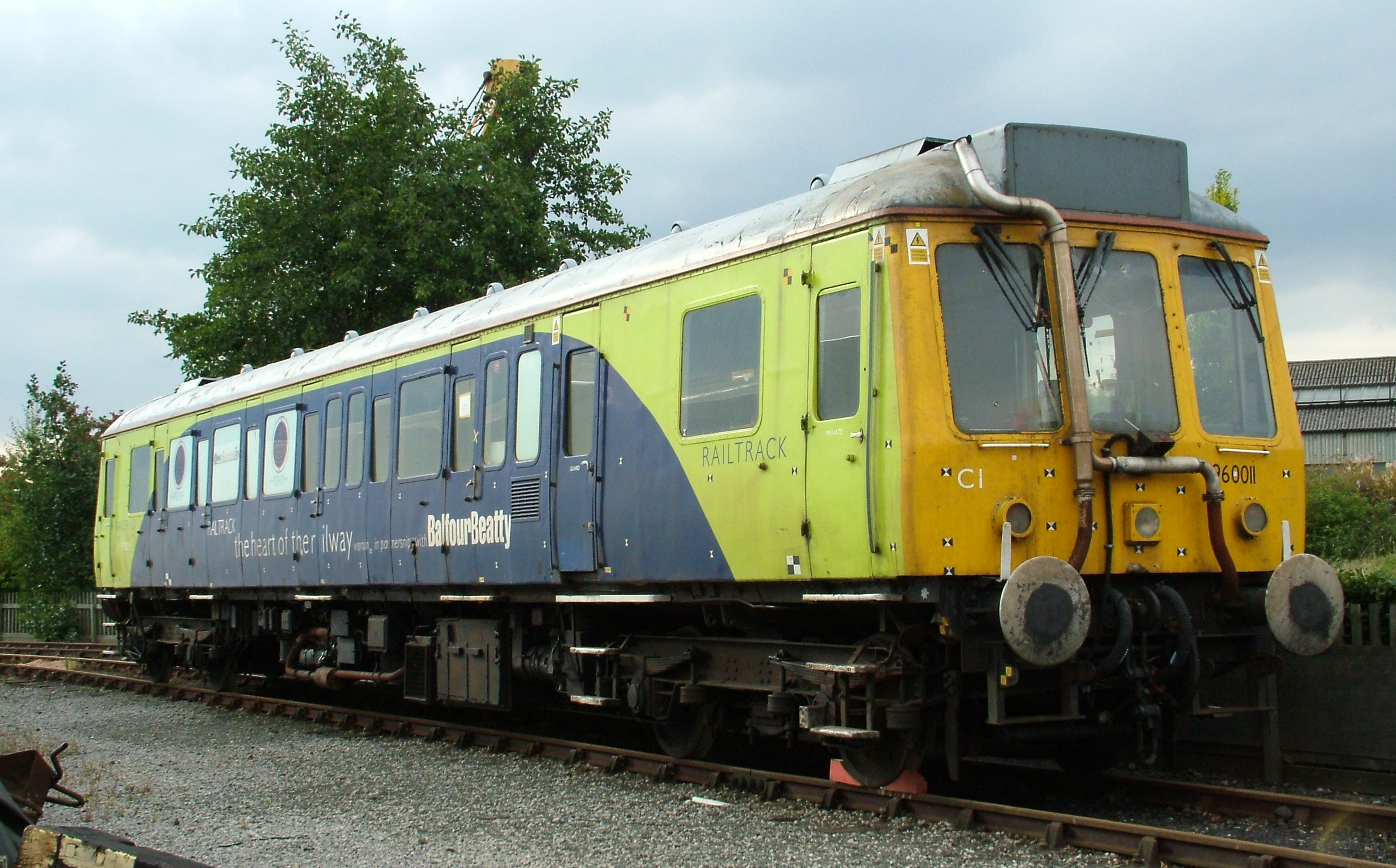 BR class 960, 960011 at National Railway Museum, York, after being withdrawn. Taken by Chris Howells, September 2005